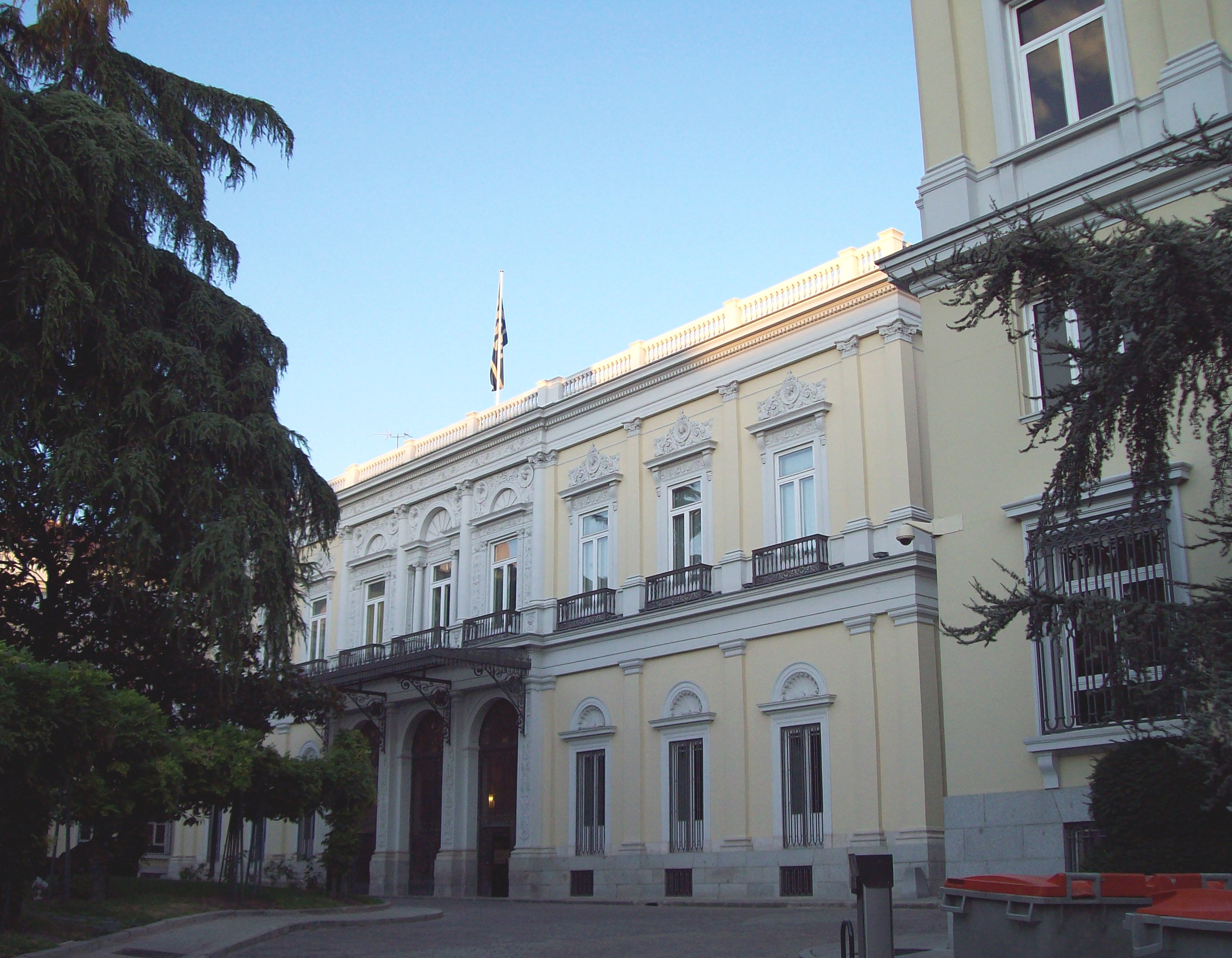 North-west façade of the Palace of the Marquis of Salamanca, at 10 Paseo de Recoletos (a boulevard) in Salamanca district in Madrid (Spain). It was projected in 1846 by Narciso Pascual y Colomer and built between 1846 and 1855. Nowadays it belongs to BBVA.